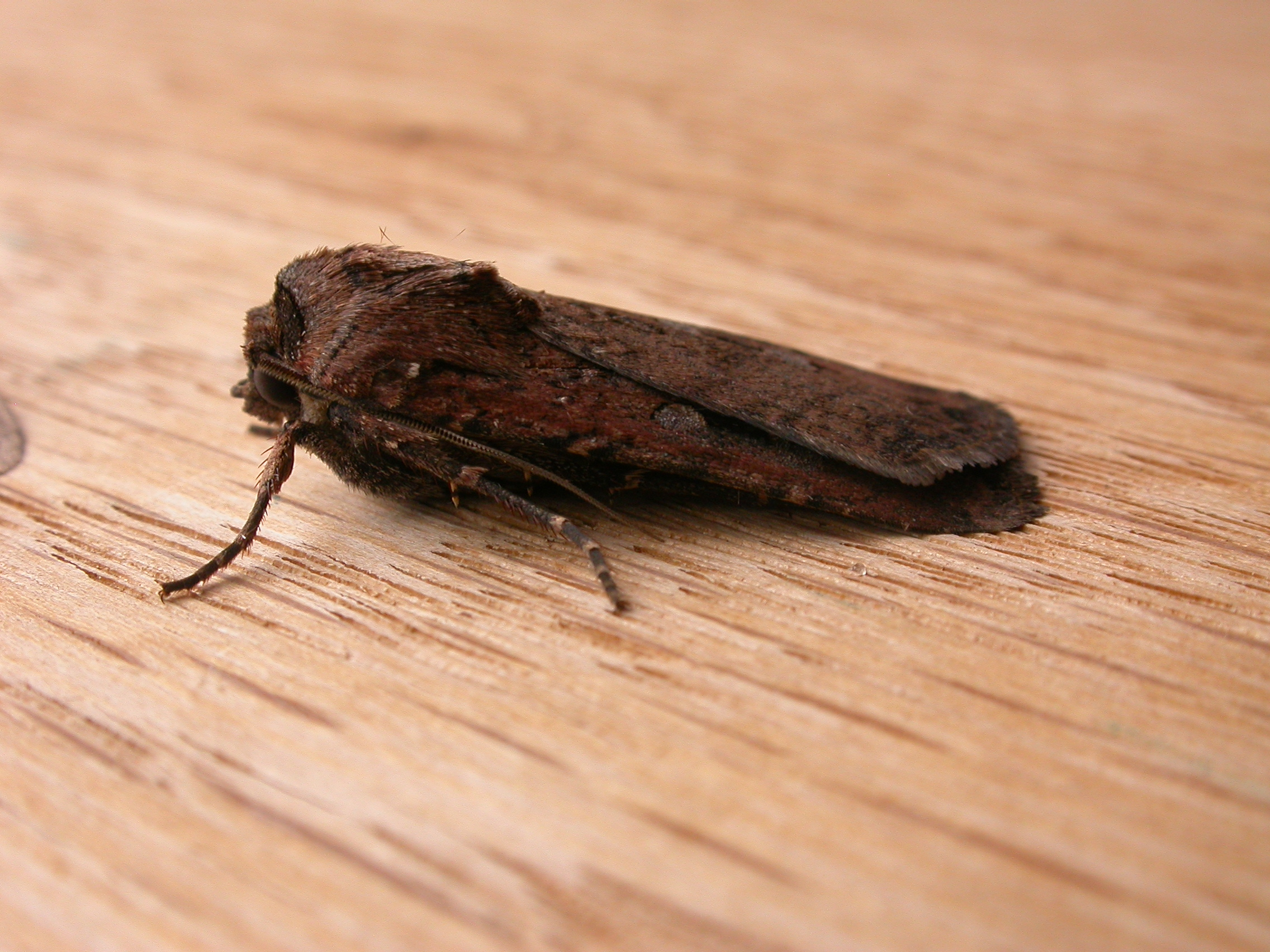 Agrotis infusa (Boisduval, 1832), to MV light, Merimbula, NSW, 8/9 November 2010 Large numbers in trap.